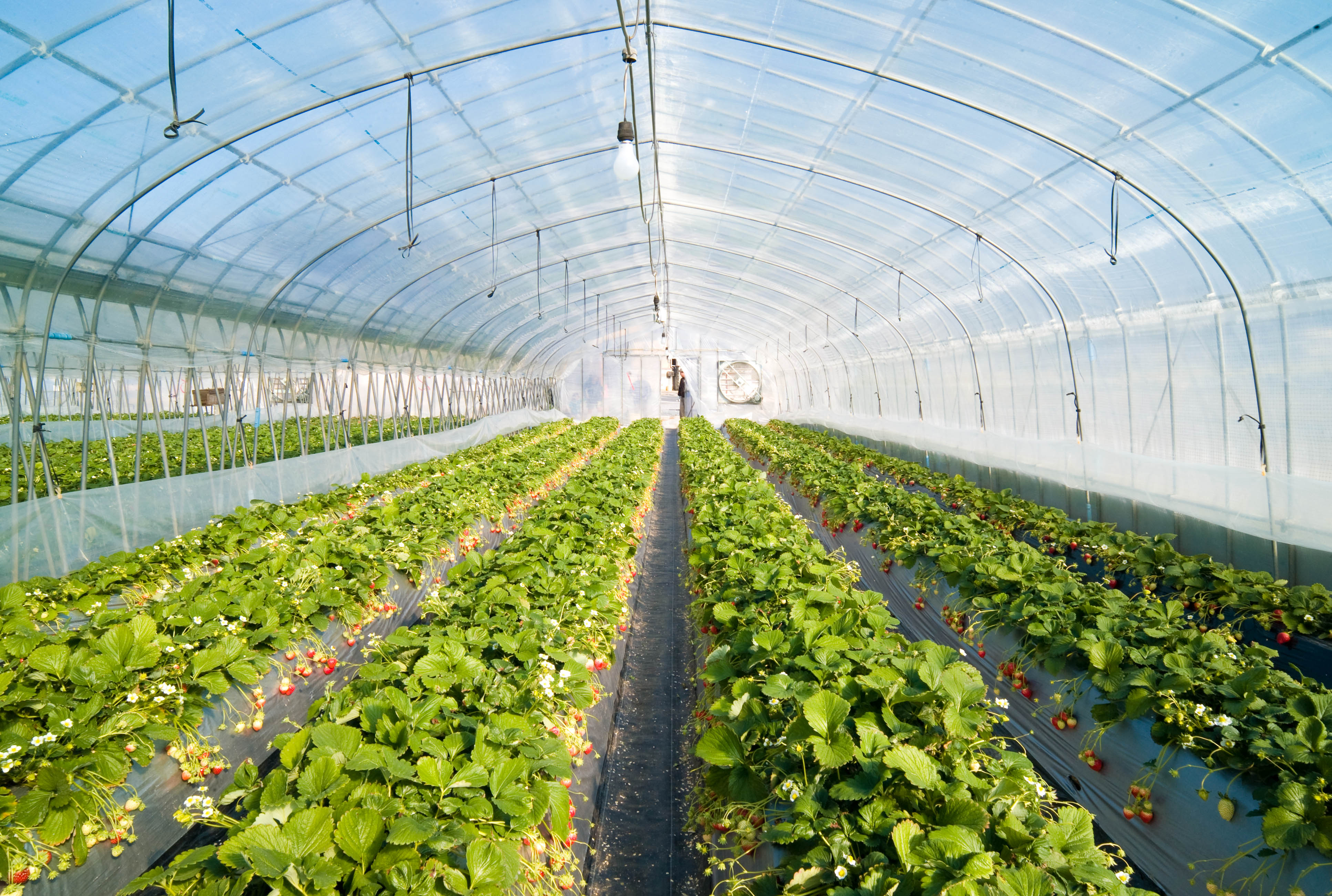 "Ichigogari": Strawberry greenhouse